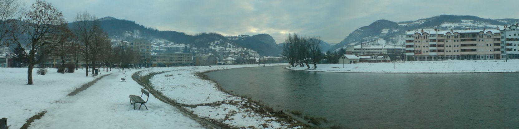 Panorama of Prijepolje in the winter and the river Lim, Serbia.